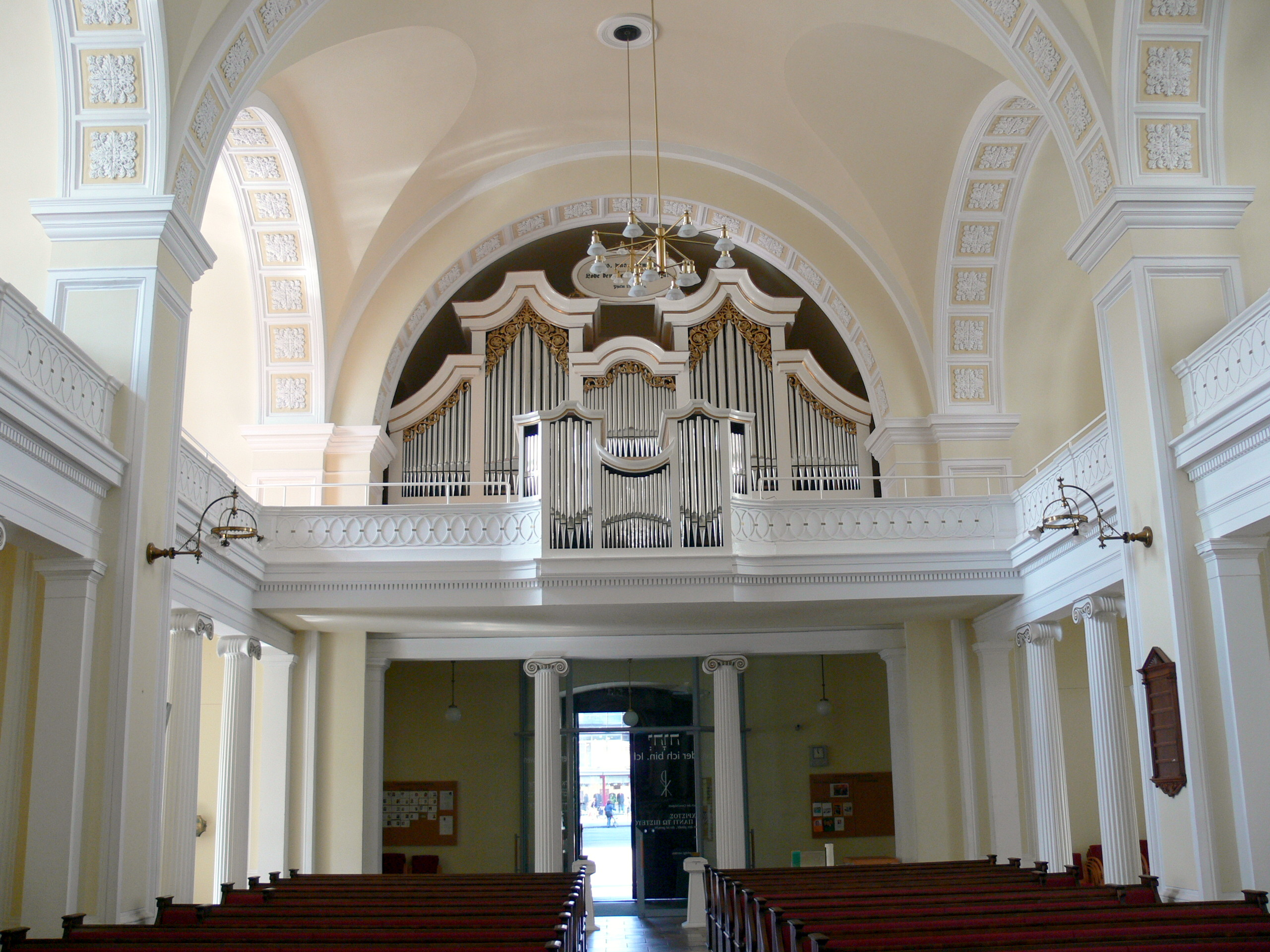 Martin-Luther-church in Linz ( Upper Austria ). Neo-classical interior with organ ( 1841-1844 )